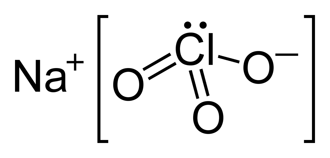 Structural formula of the constituent ions of sodium chlorate, NaClO3. Structure drawn in ChemDraw Ultra 11.0.